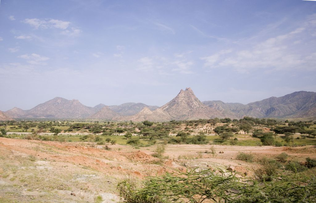 Battle of Keren Battlefield - Mountains around Keren